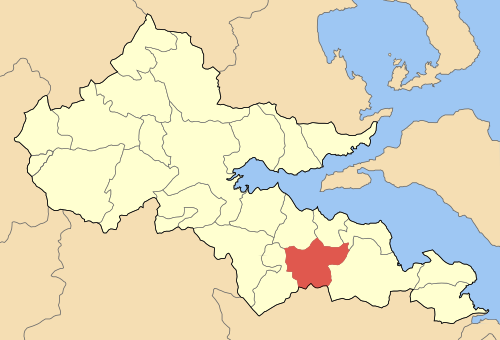 Locator map of Elateias municipality (Δήμος Ελάτειας) at Fthiotida perfecture, Greece.